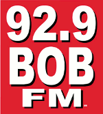 Former logo of radio station KBEZ used from 2010-2013